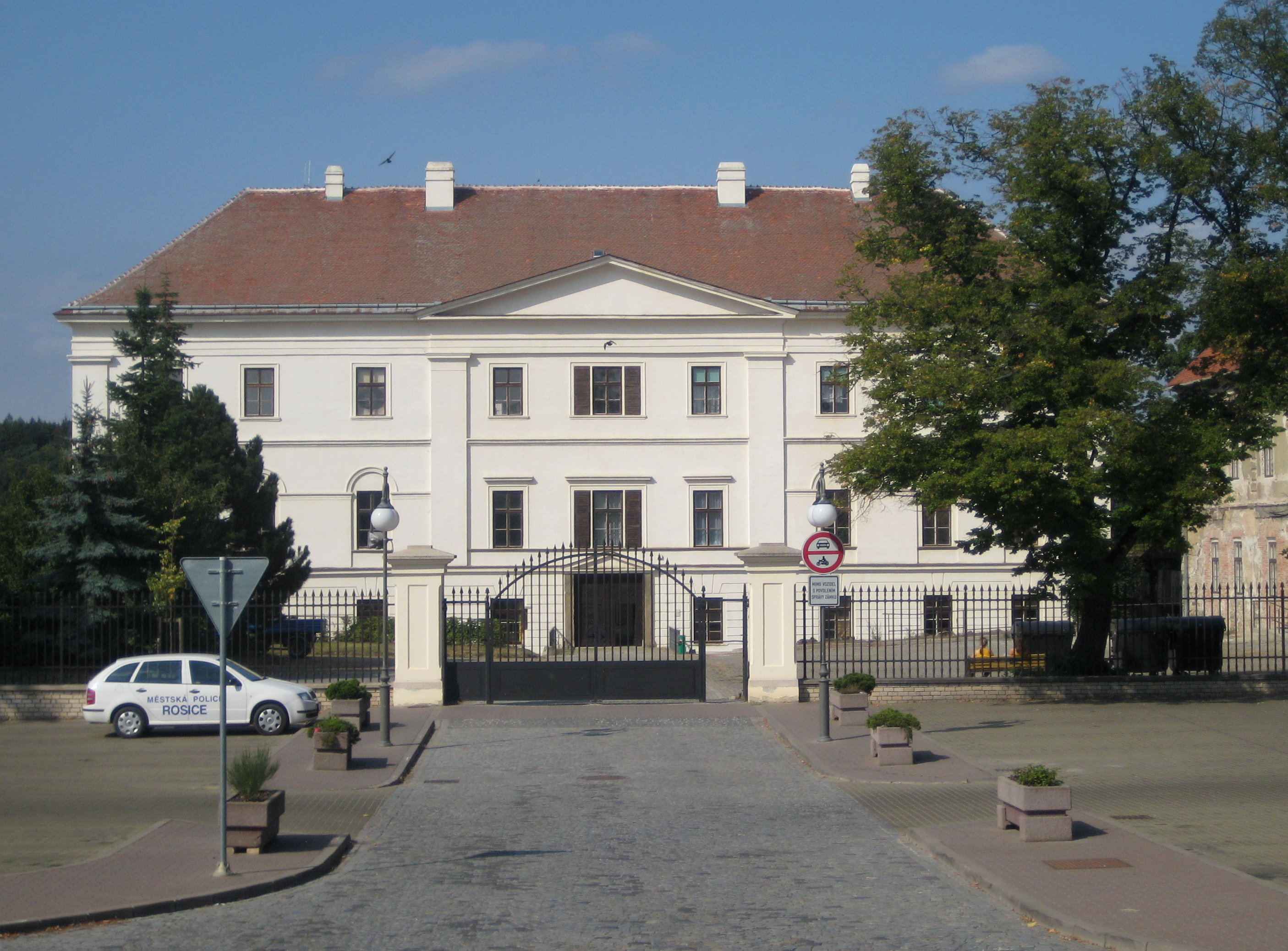 Rosice Castle, Czech Republic, view from the east